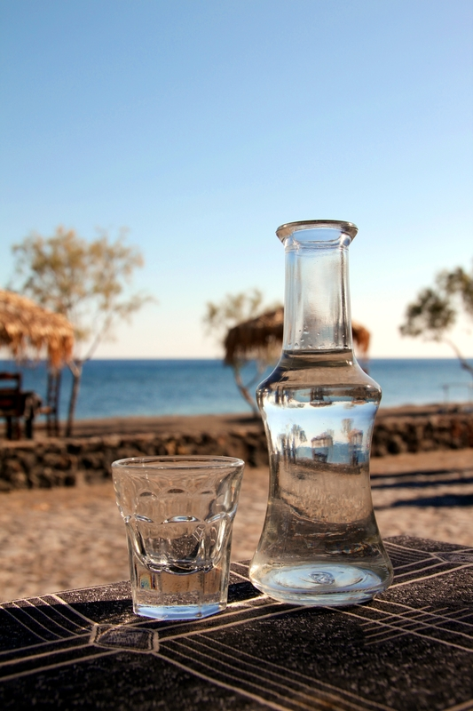 Sunday in Perivolos, Santorini... If you knew how I love Sunday!